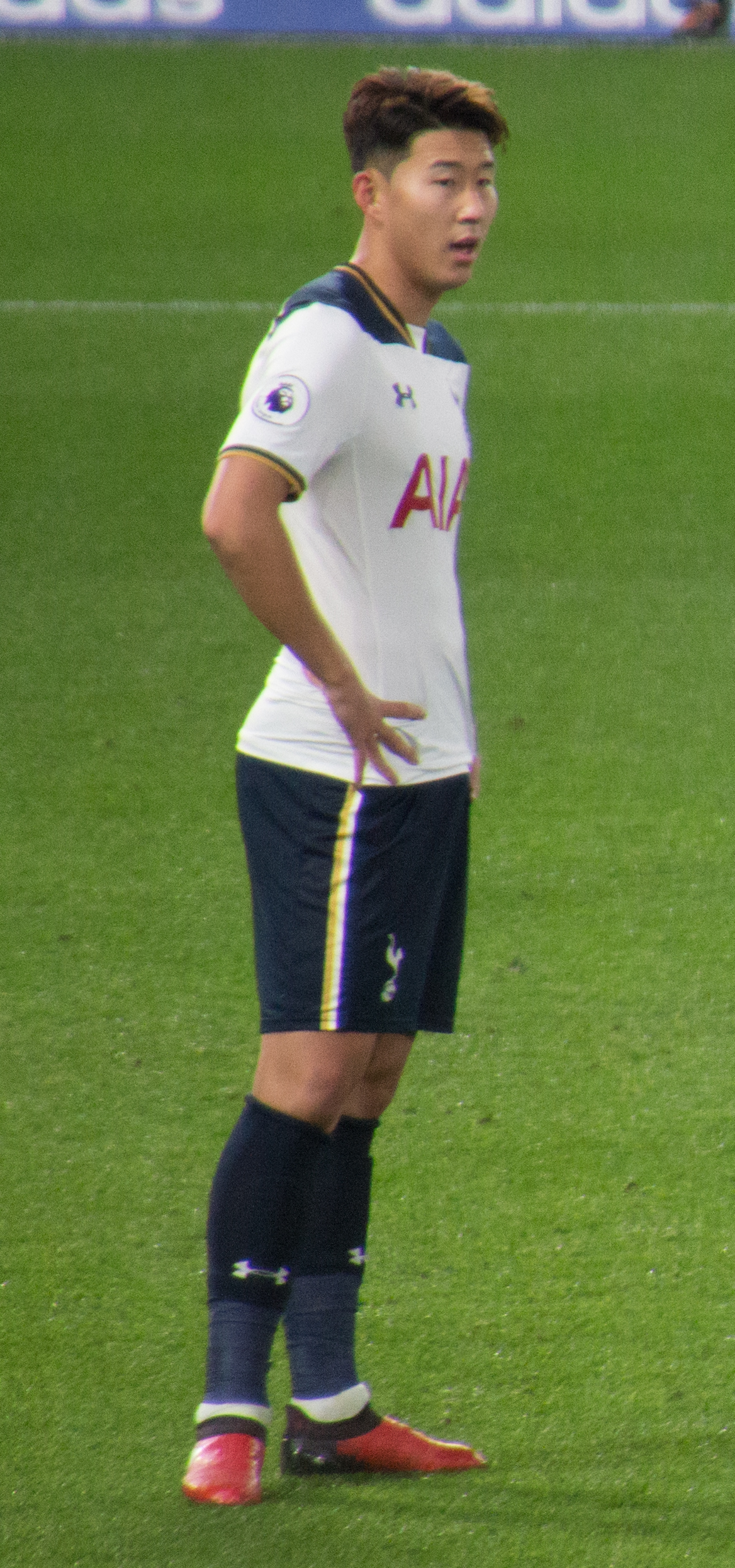 Chelsea 2 Spurs 1 - 26.11.16